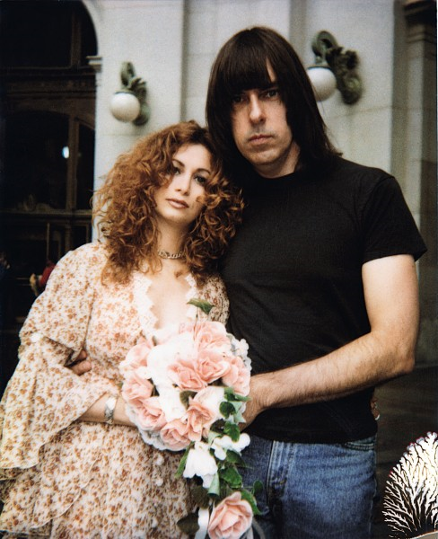 Image of Linda and Johnny Ramone.